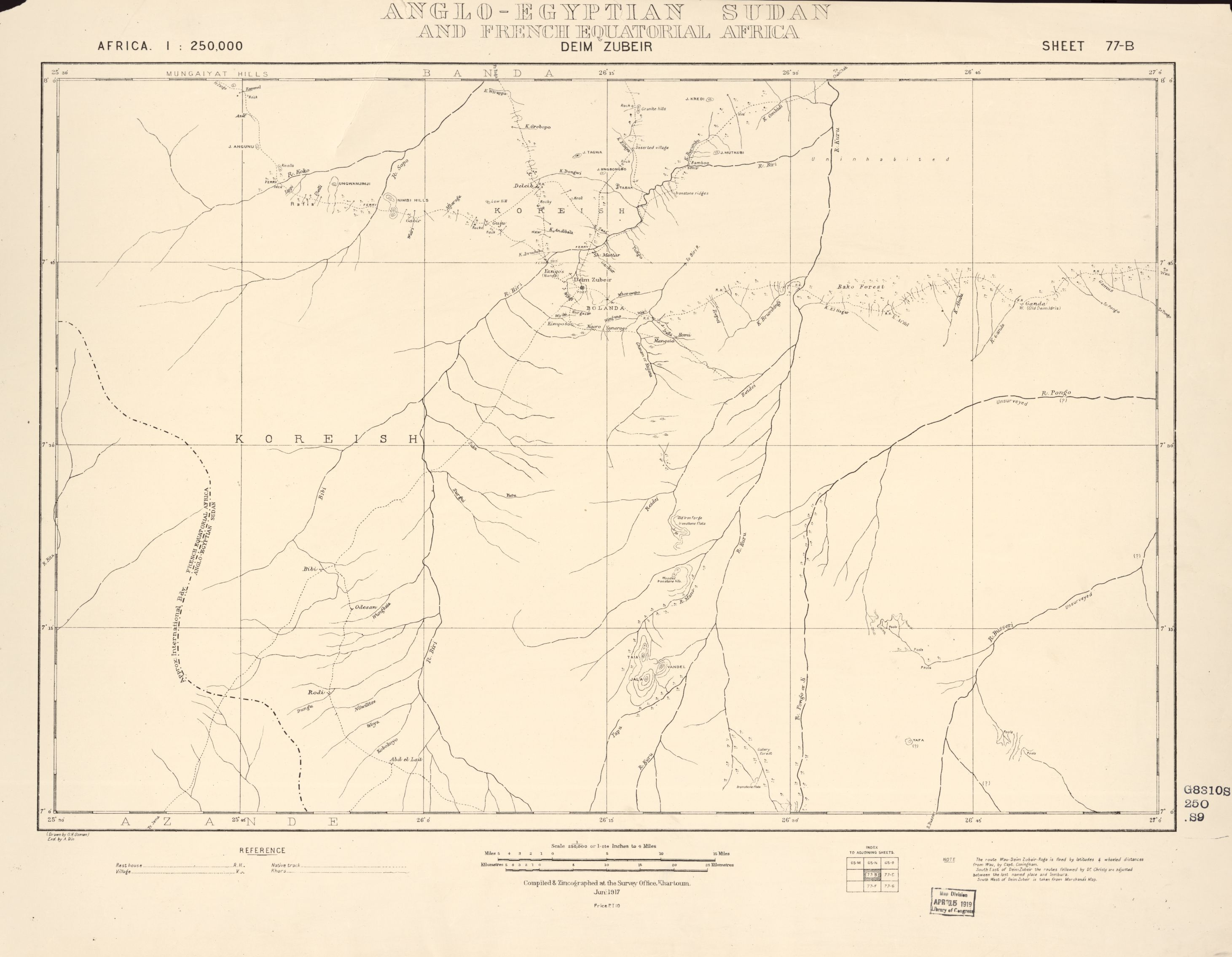 Sudan 1:250,000 map of the Survey Office / Maṣlaḥat al-Misāḥah of the Anglo-Egyptian Condominium Deim Zubeir Sheet 77-B Jun 1917